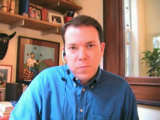 Image source is a screen shot image hosted on the BloggingHeads.tv site of a video podcast. Site specifically allows for image reuse.